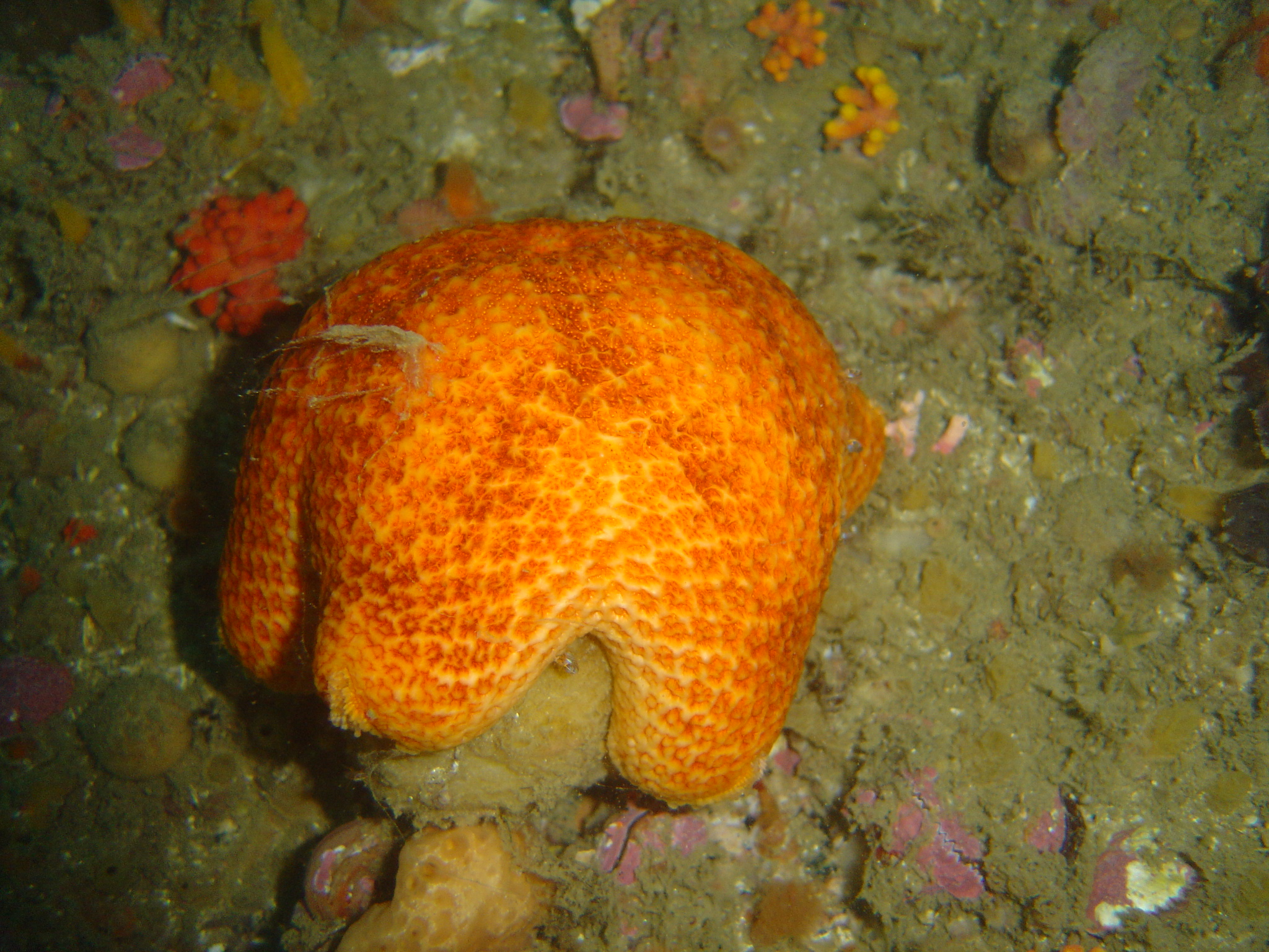 Hout Bay, Cape Peninsula, Western Cape.